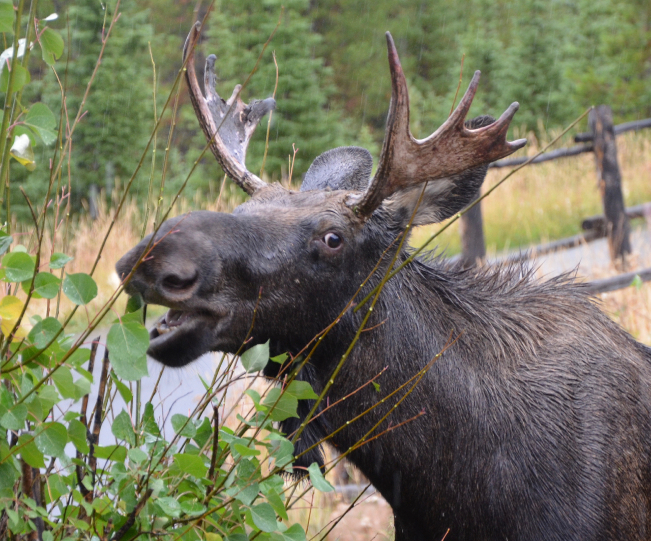 Montana Moose